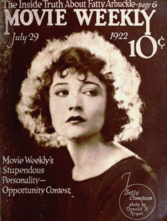 Actress Betty Compson on the cover of the July 29, 1922 Movie Weekly.